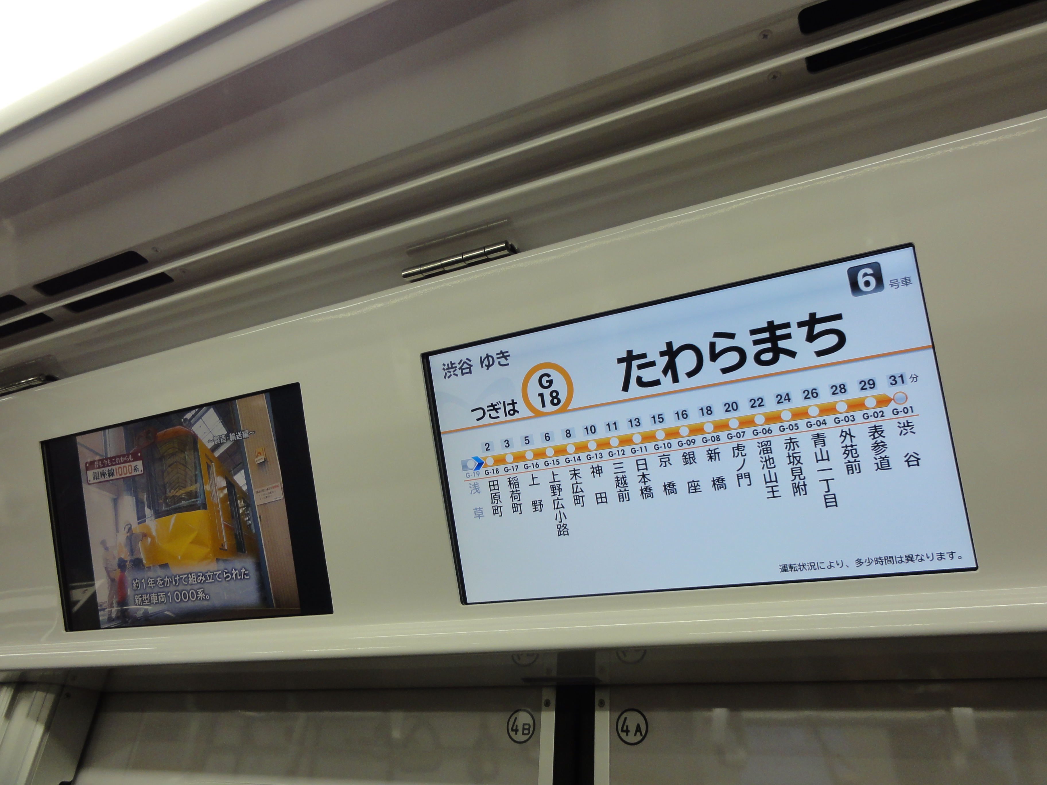 LCD passenger information display inside a Tokyo Metro 1000 series Ginza Line EMU